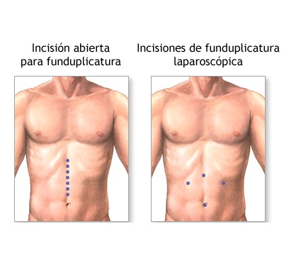 Procedimientos de funduplicatura de tipo nissen